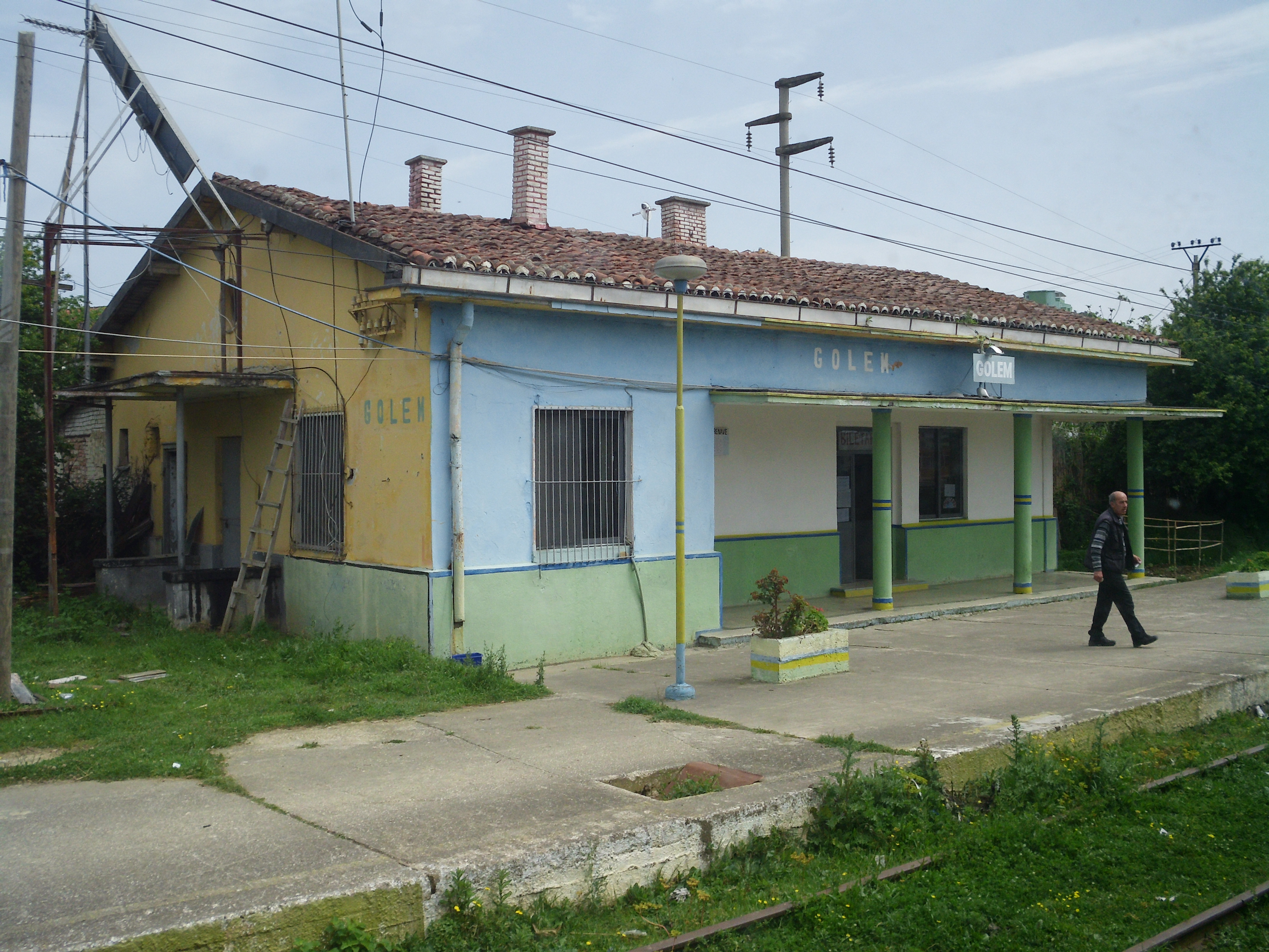 Train station in Golem, Albania